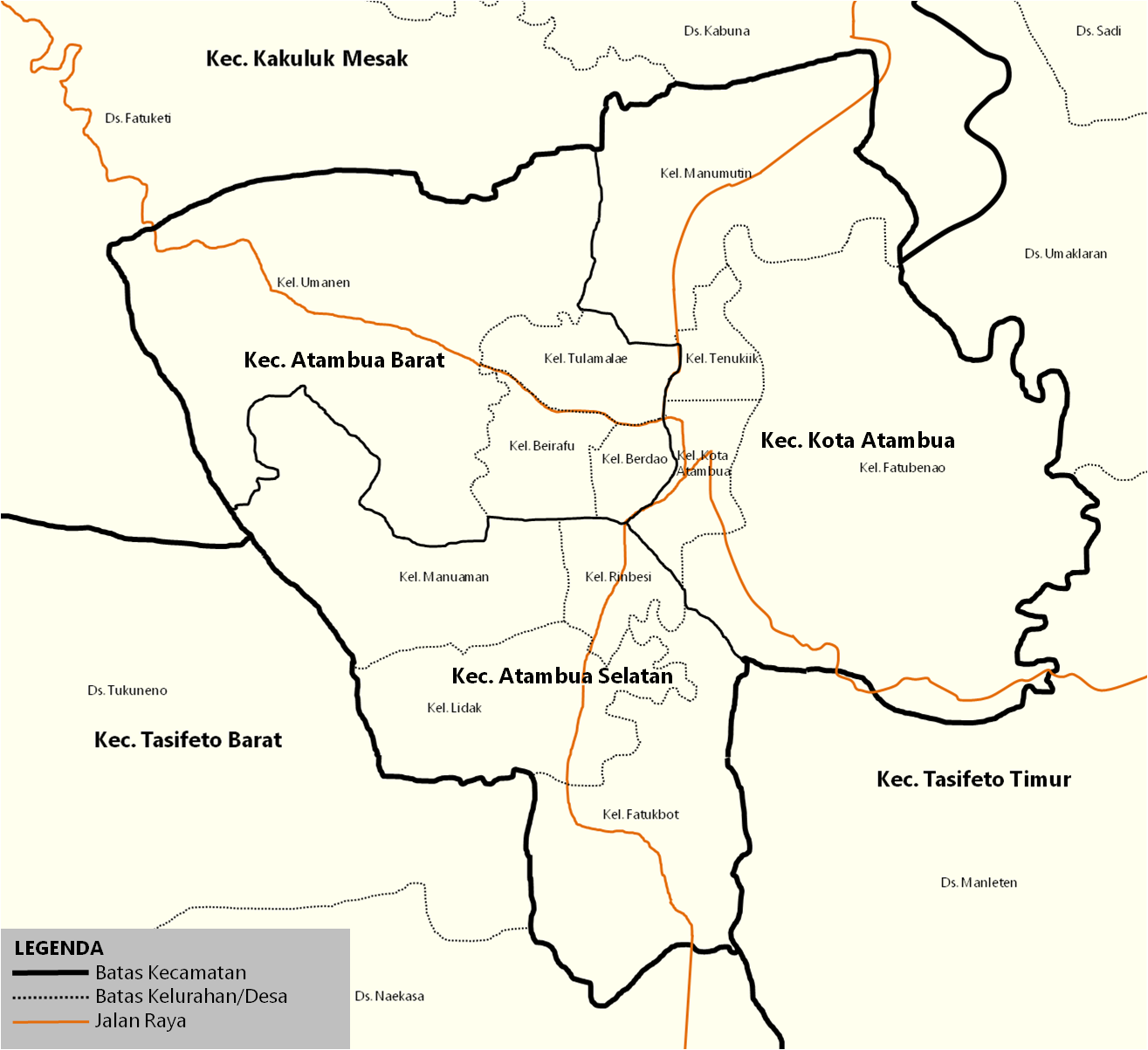 Map of the districts inside town of Atambua. Indonesia